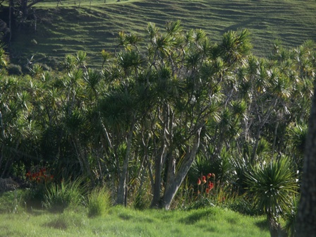 Bethels Beach Cabbage Trees - photo taken and uploaded by Paul Moss, Photographer, Artist, Paul Moss Photographer Artist NZ